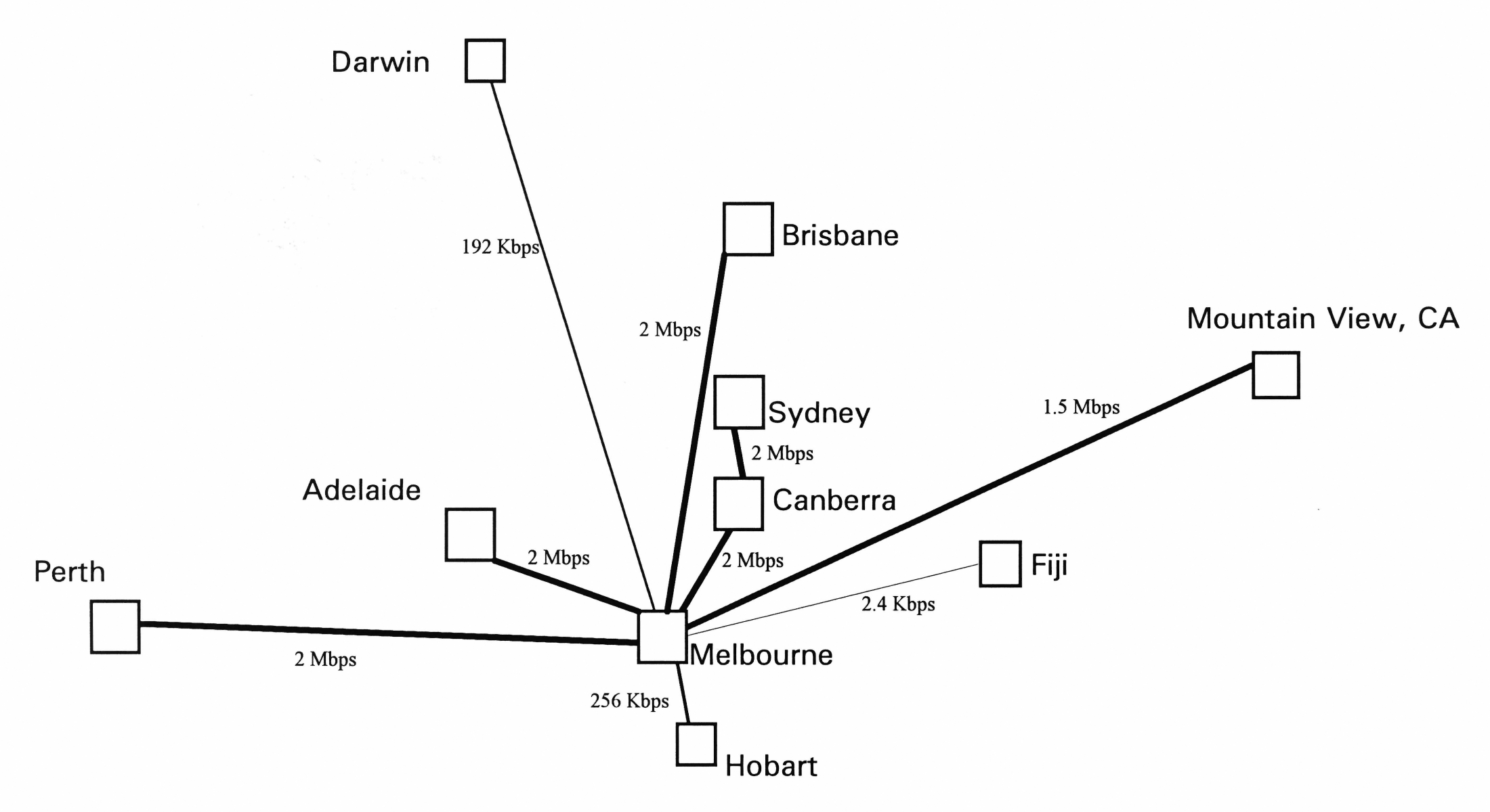 This is a diagrammatic map of the AARNet network, as at October 1993.